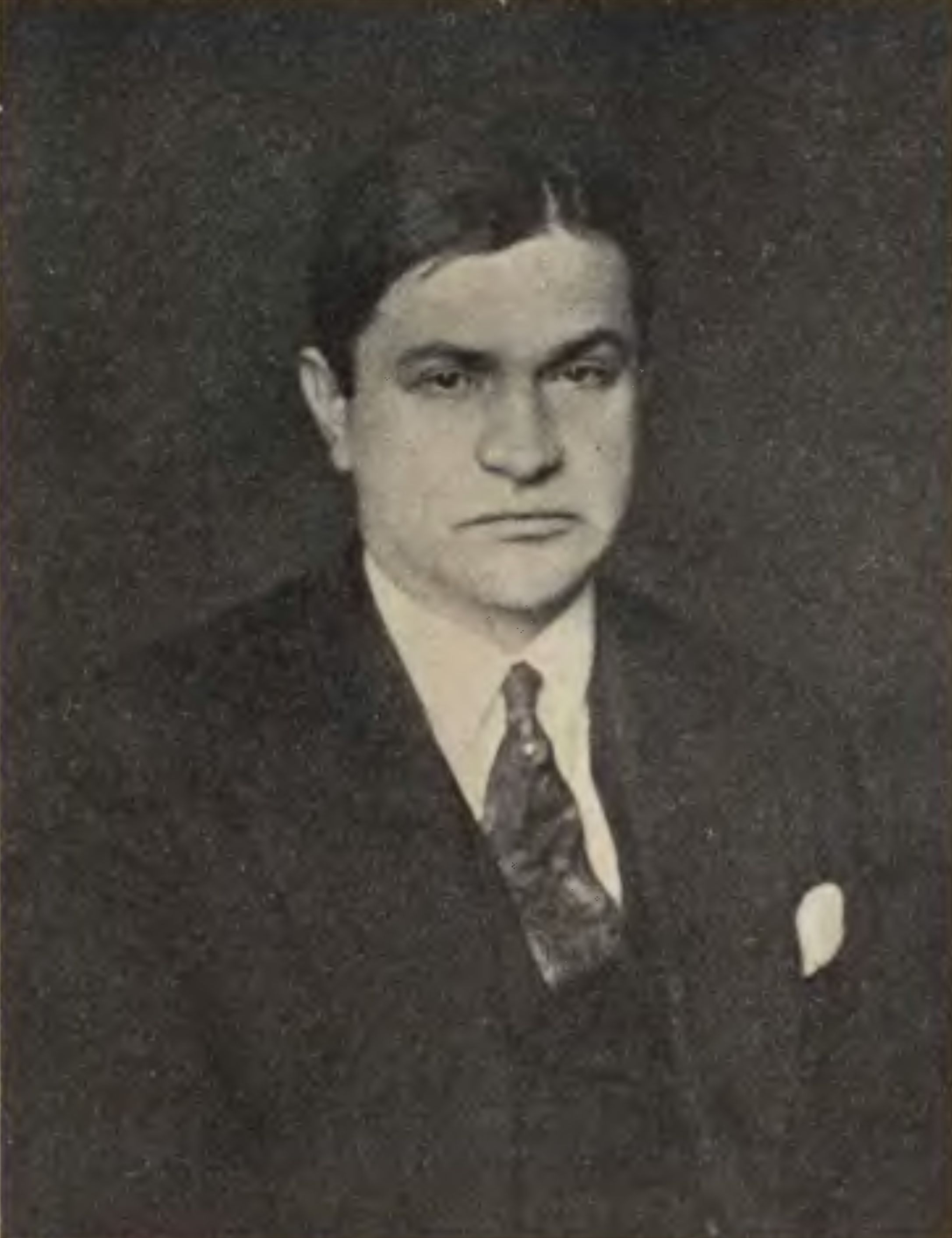 Bronisław Pieracki (1895-1934)